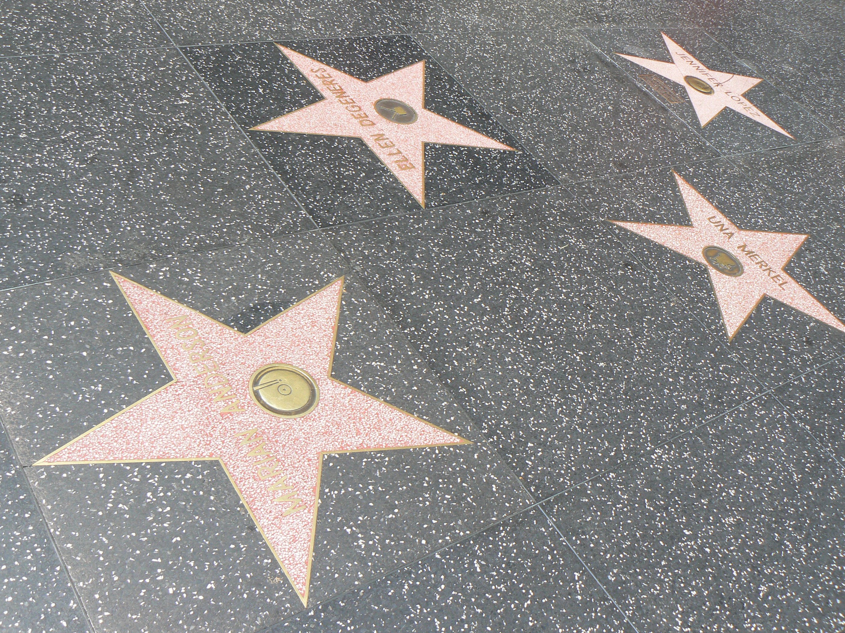 Stars on the Hollywood Walk of Fame.